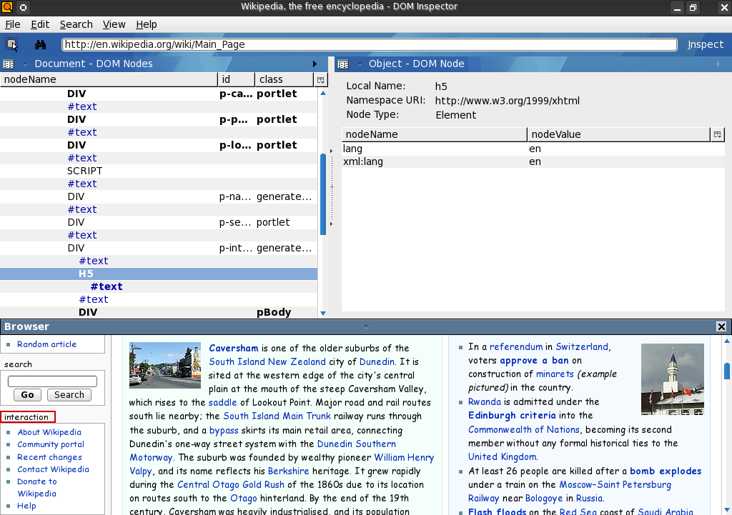 Screenshot of Firefox's DOM Inspector. Rest of the UI (border, buttons etc.) is KDE.